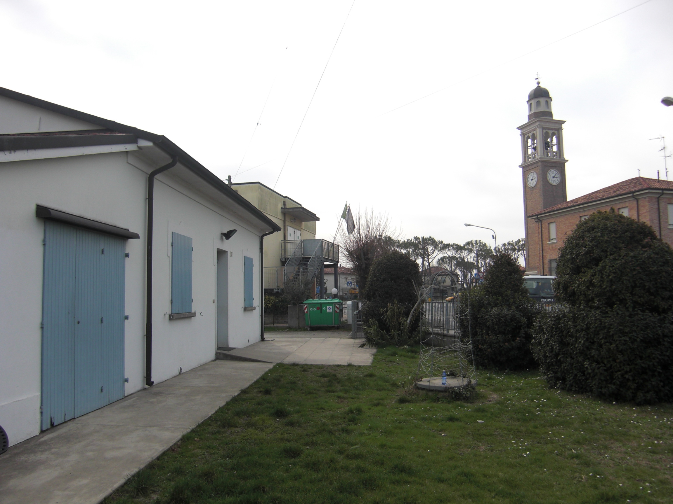 The home of Angelina Pirini (Italy)